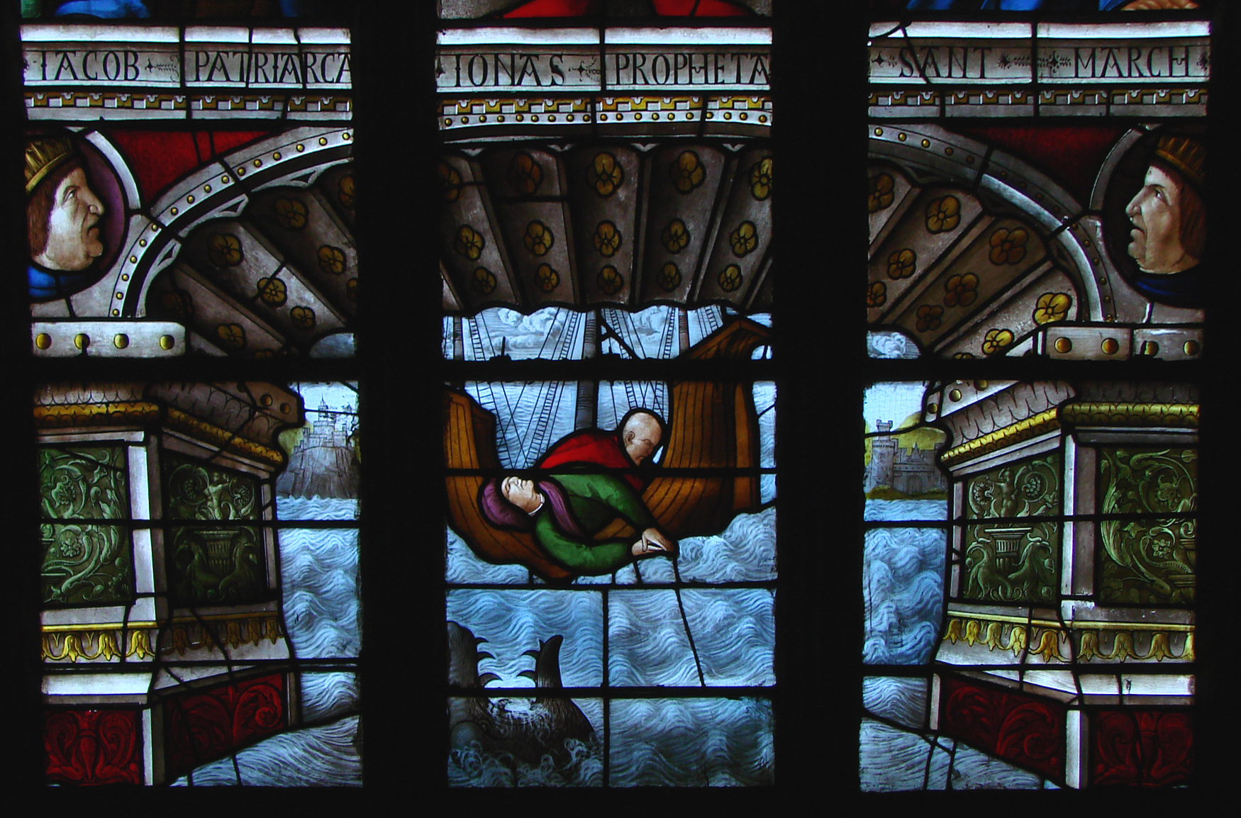 One of the 18 Renaissance stained glass windows of Auch cathedral by Arnaud de Moles.A detail: Jonah.